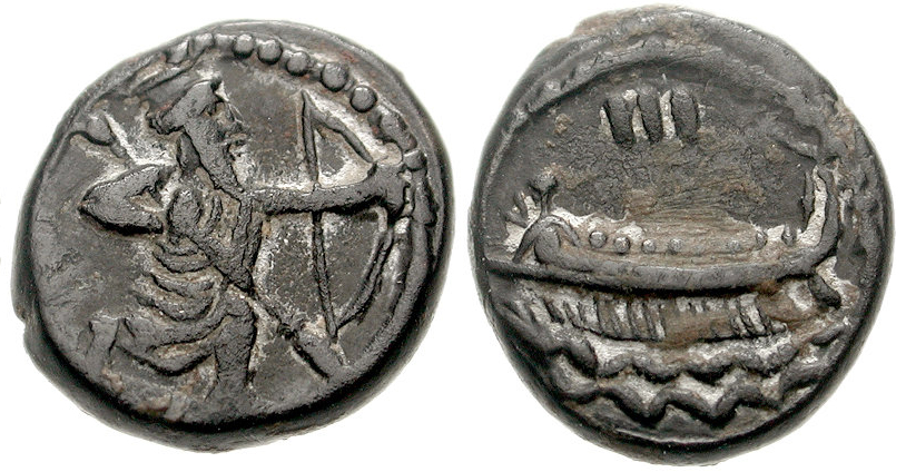 PHOENICIA, Sidon. Abdashtart I. Circa 365-352 BC